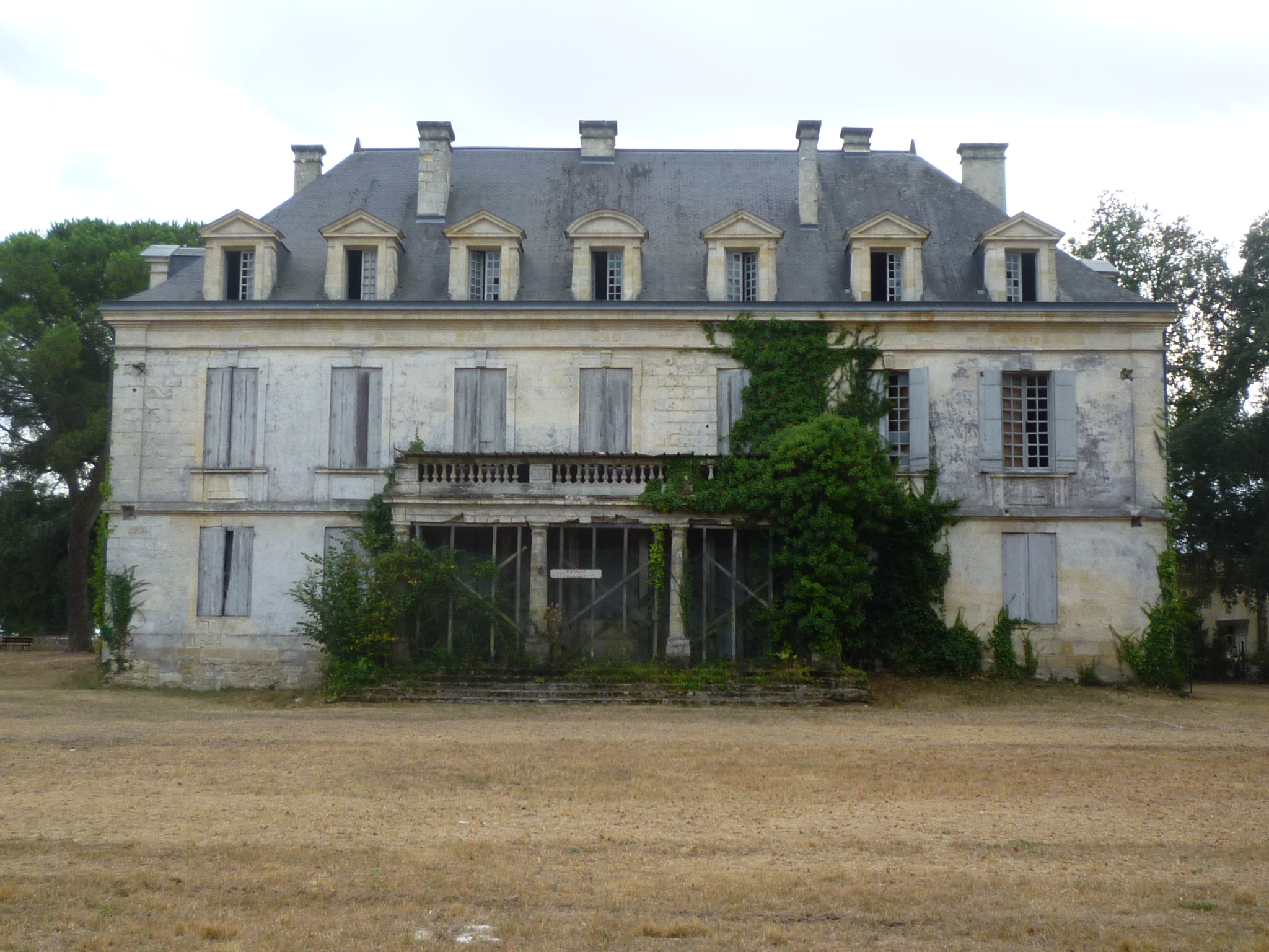 In the Cadaujac park, summer 2012